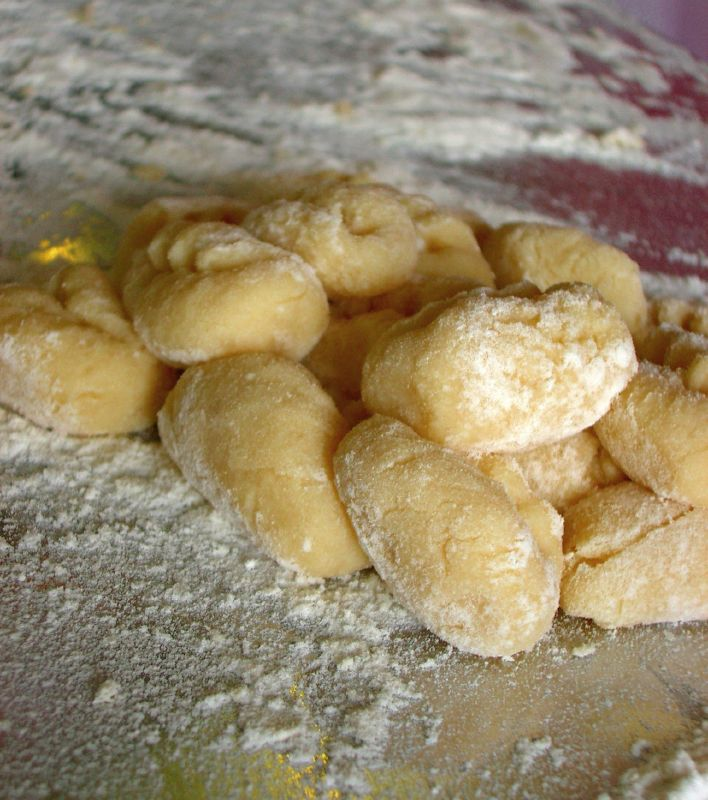 The results of the gnocchi competition. The winning gnocchi was unfortunately claimed by the prizewinner! Part of La Dolce Vita 2005 at Pizzini Wines, Whitfield.